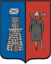 Rostov-na-Donu, coat of arms (1811)